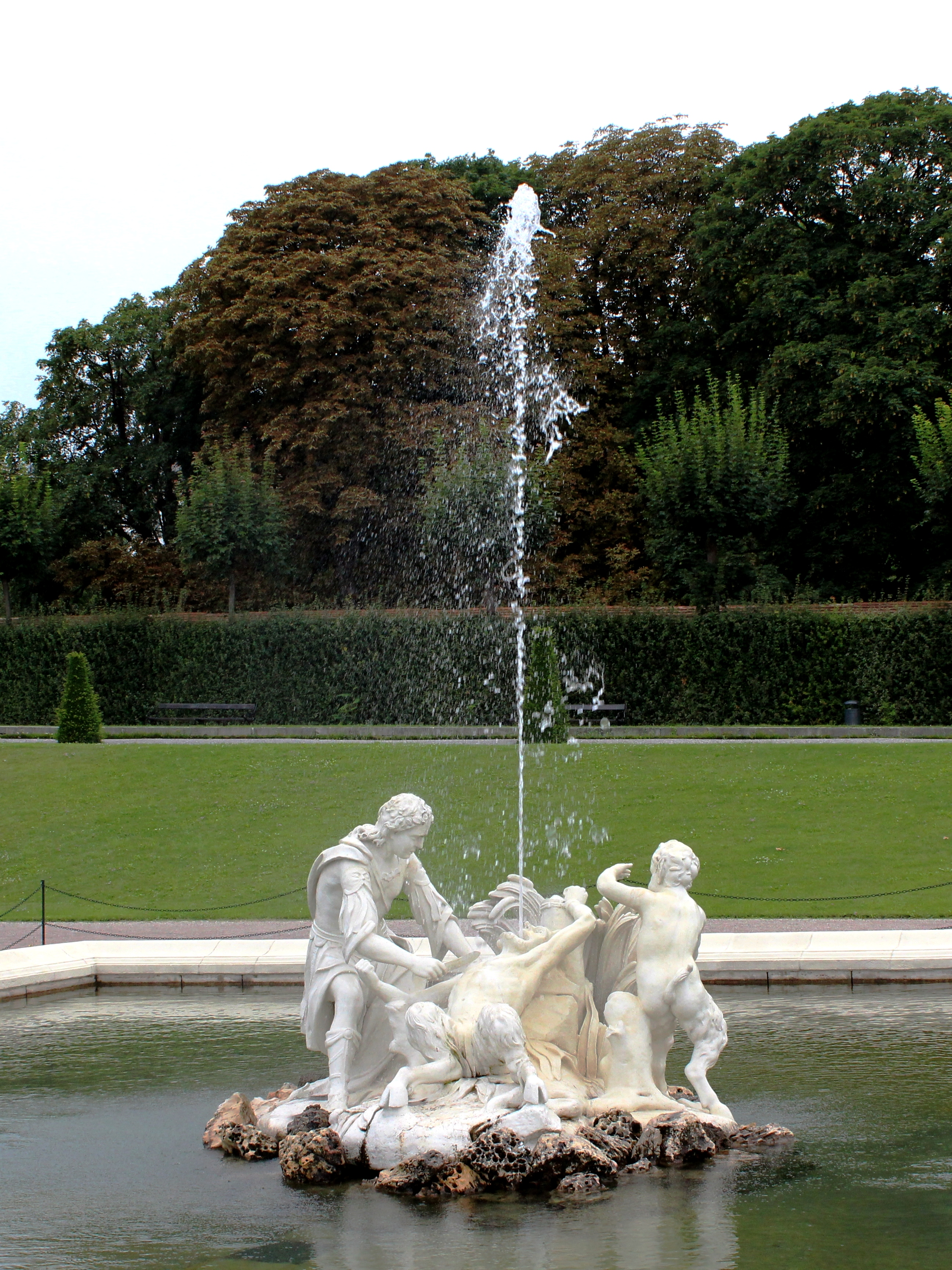 Fountain in the garden of the Belvedere Palace (Vienna, Austria).